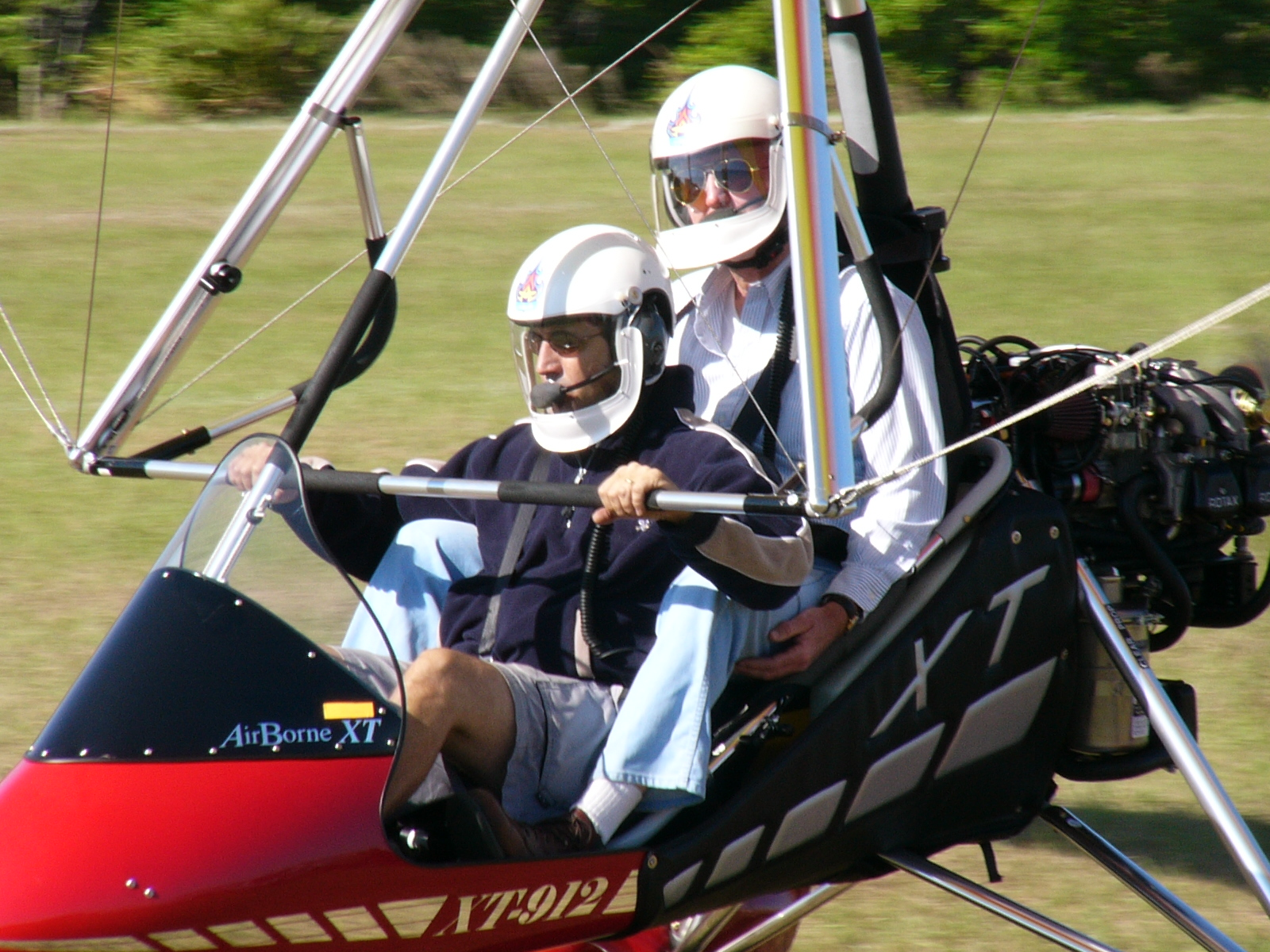 An Airborne XT-912 trike at Sun 'n Fun, Lakeland Florida, USA